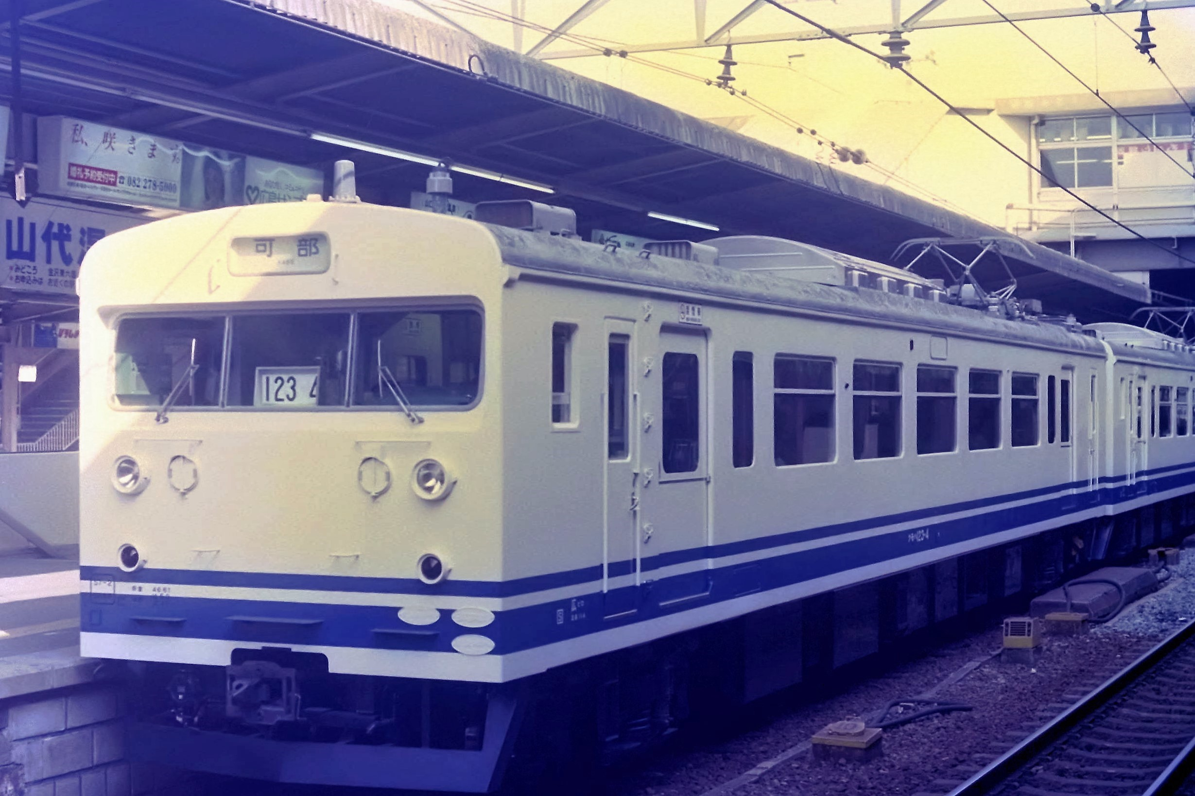 JNR 123 series EMU car KuMoHa 123-4 at Hiroshima Station